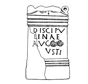 Altar dedicated to the Discipline of the Emperor(s) from Castlesteads (Hadrians Wall), AD 212-217, Red sandstone, W. 0.559 × H. 0.94, Find date: In, or shortly before, 1791, Translation: To the Discipline of the (three) August (Emperors).